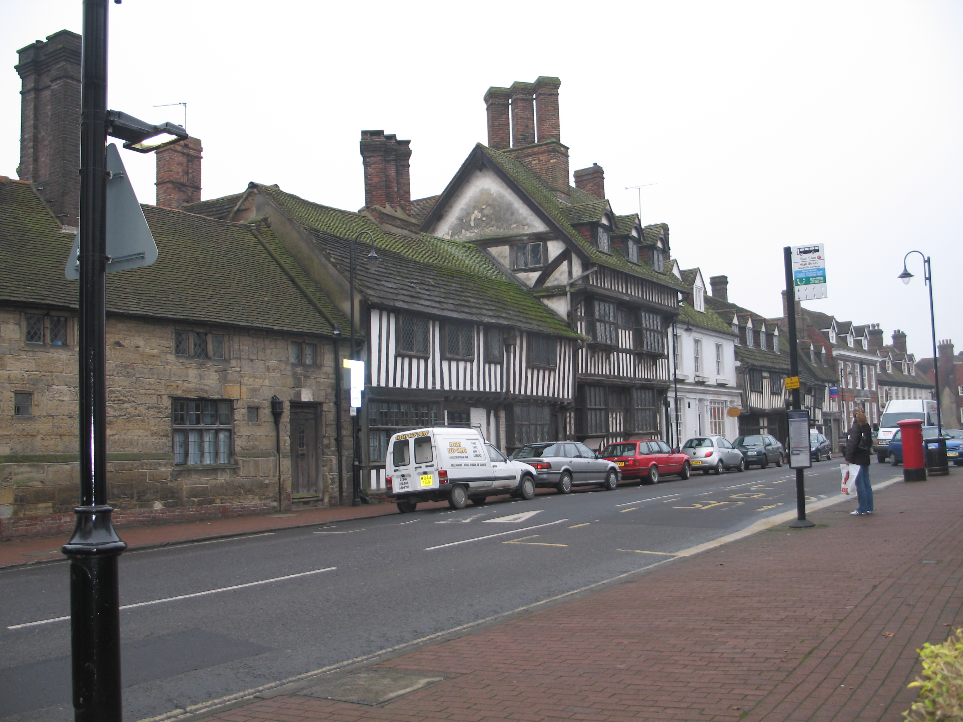 Photograph of 14th Century row of buildings in East Grinstead. Image taken en:2006-01-09.